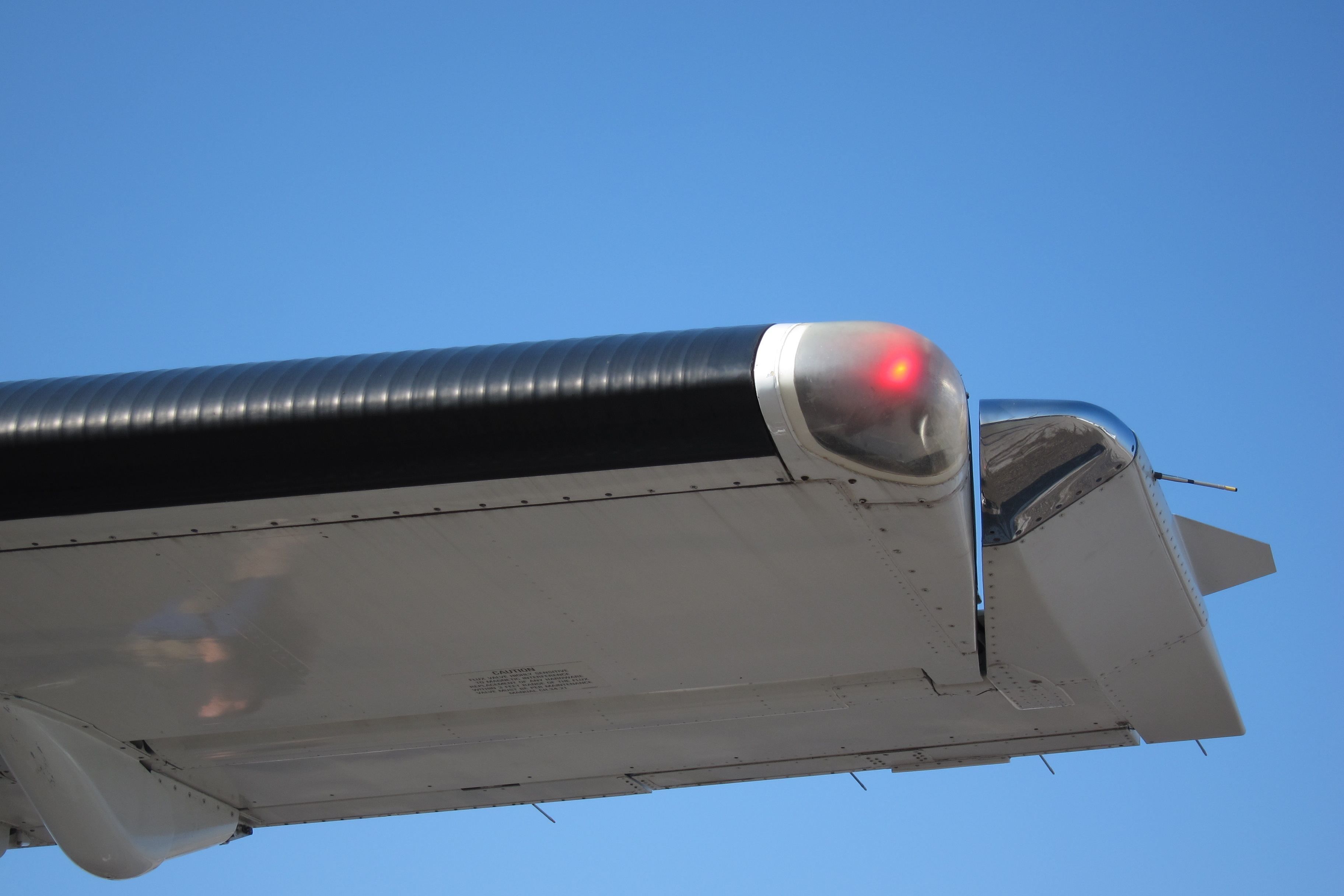 The position light and aileron aerodynamic balance horn (also called aerodynamic balance, or aileron overhang) on the left wing of an ATR 72 aircraft.